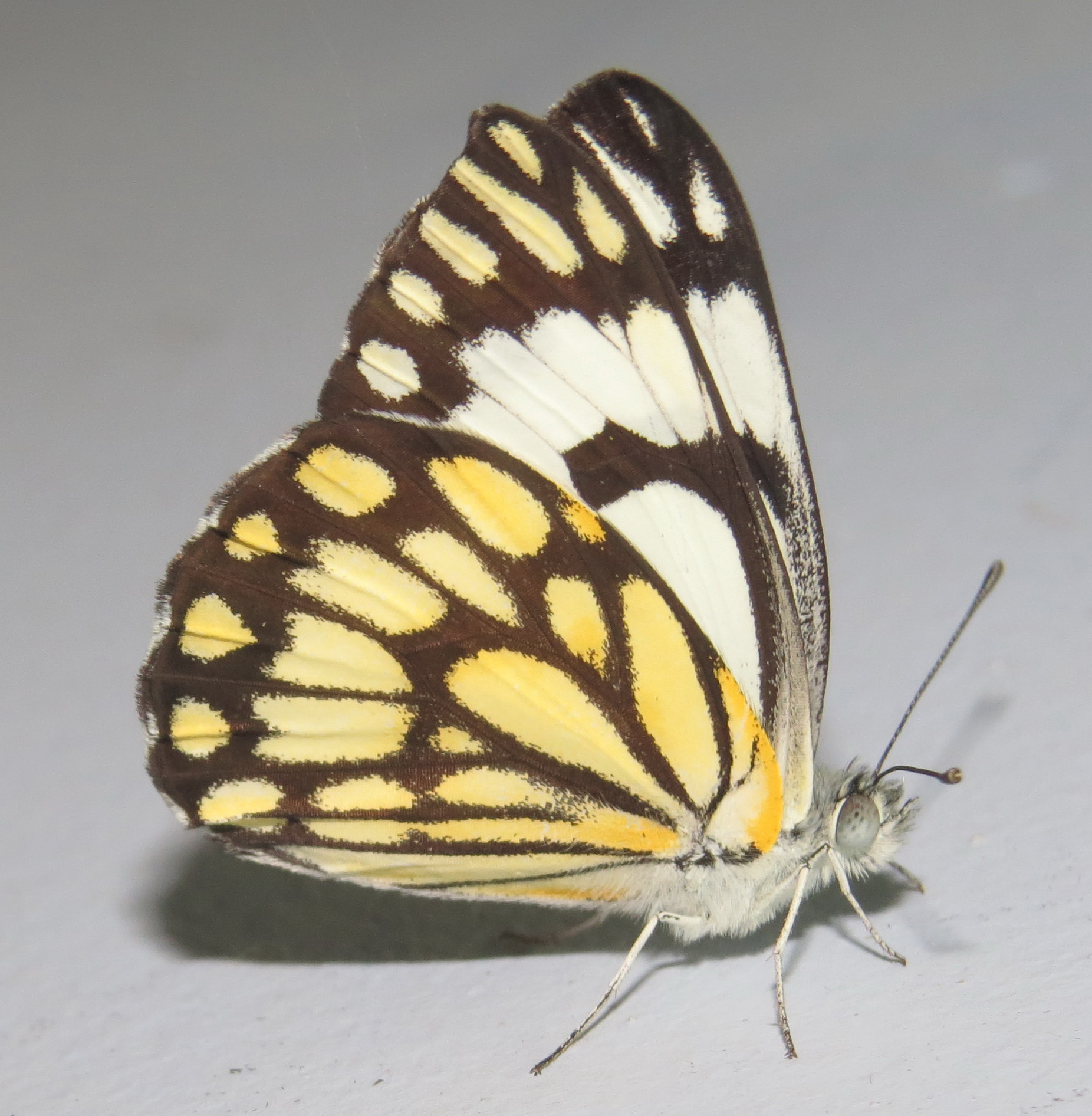 Belenois aurota – Pioneer